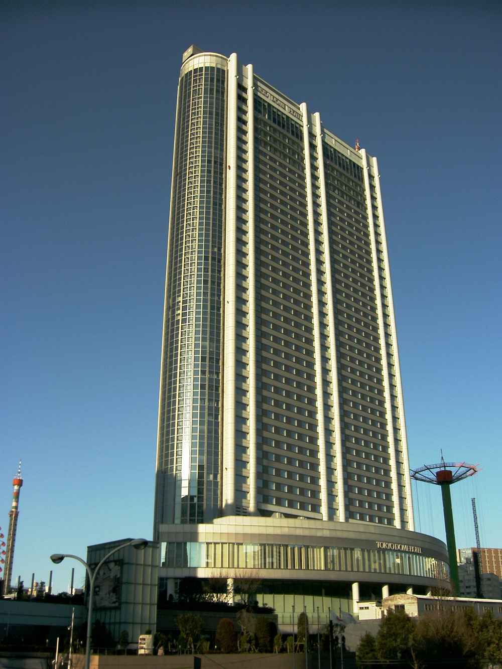 Tokyodome-Hotel_-Building Tokyo Japan